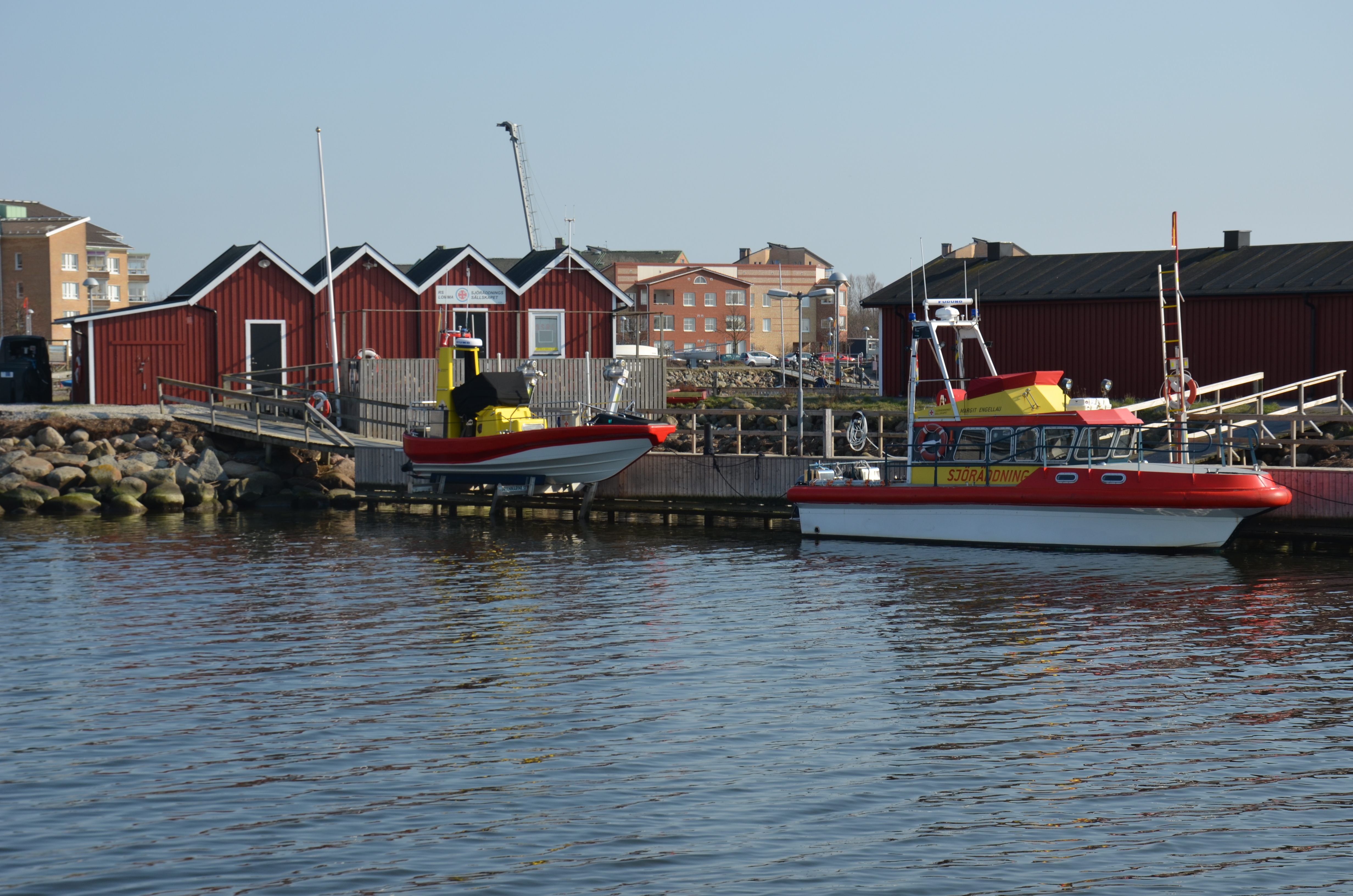 Lomma Sea Rescue Station, Lomma, Sweden